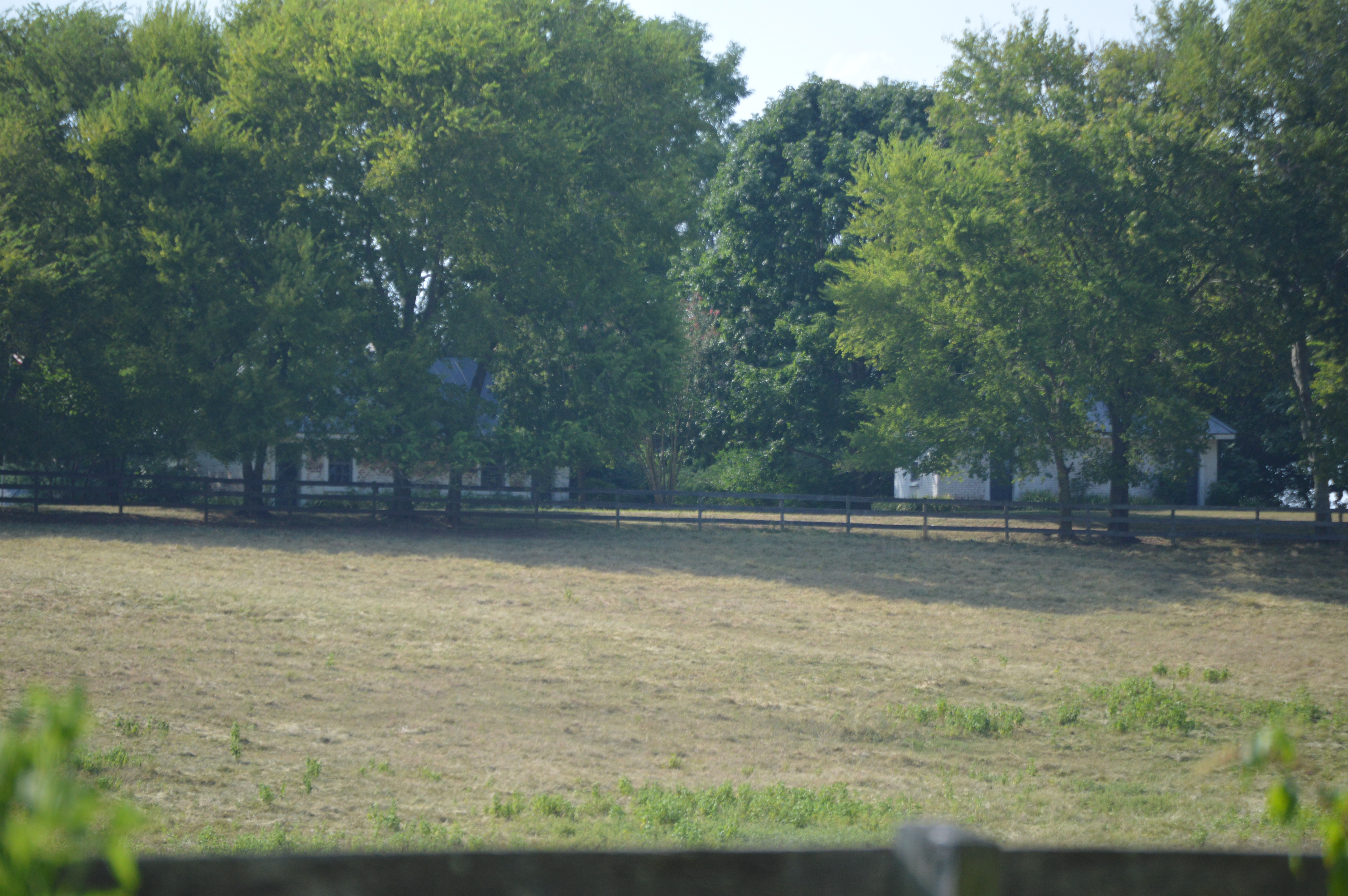 Buildings in the Dover Slave Quarter Complex, located at 854 Dover Road east of Crozier in Goochland County, Virginia, United States. The complex is listed on the National Register of Historic Places.